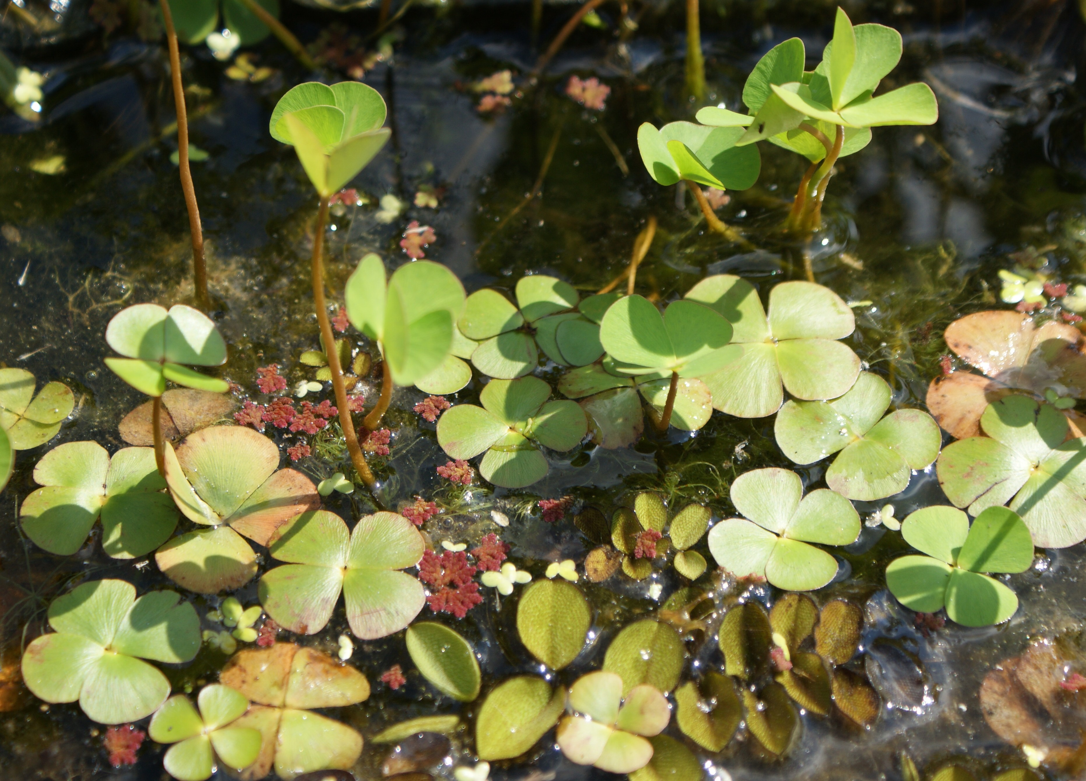 Marsilea quadrifolia (also Lemna minor, Azolla, Salvinia natans) in Botanic Garden in Wrocław (Poland)